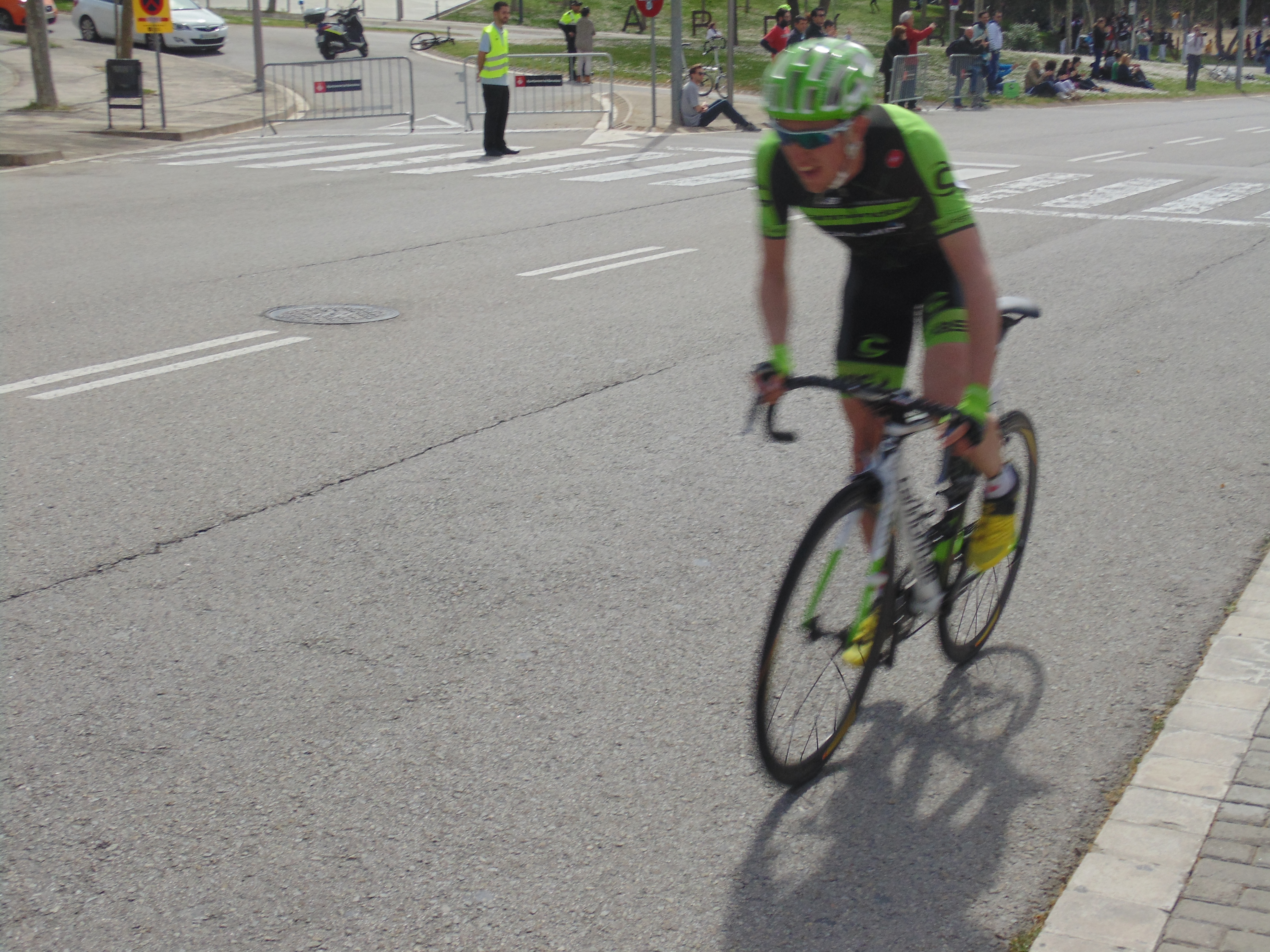 Garmin rider Daniel Martin launches an attach during the closing stage of the 2015 Volta a Catalunya.